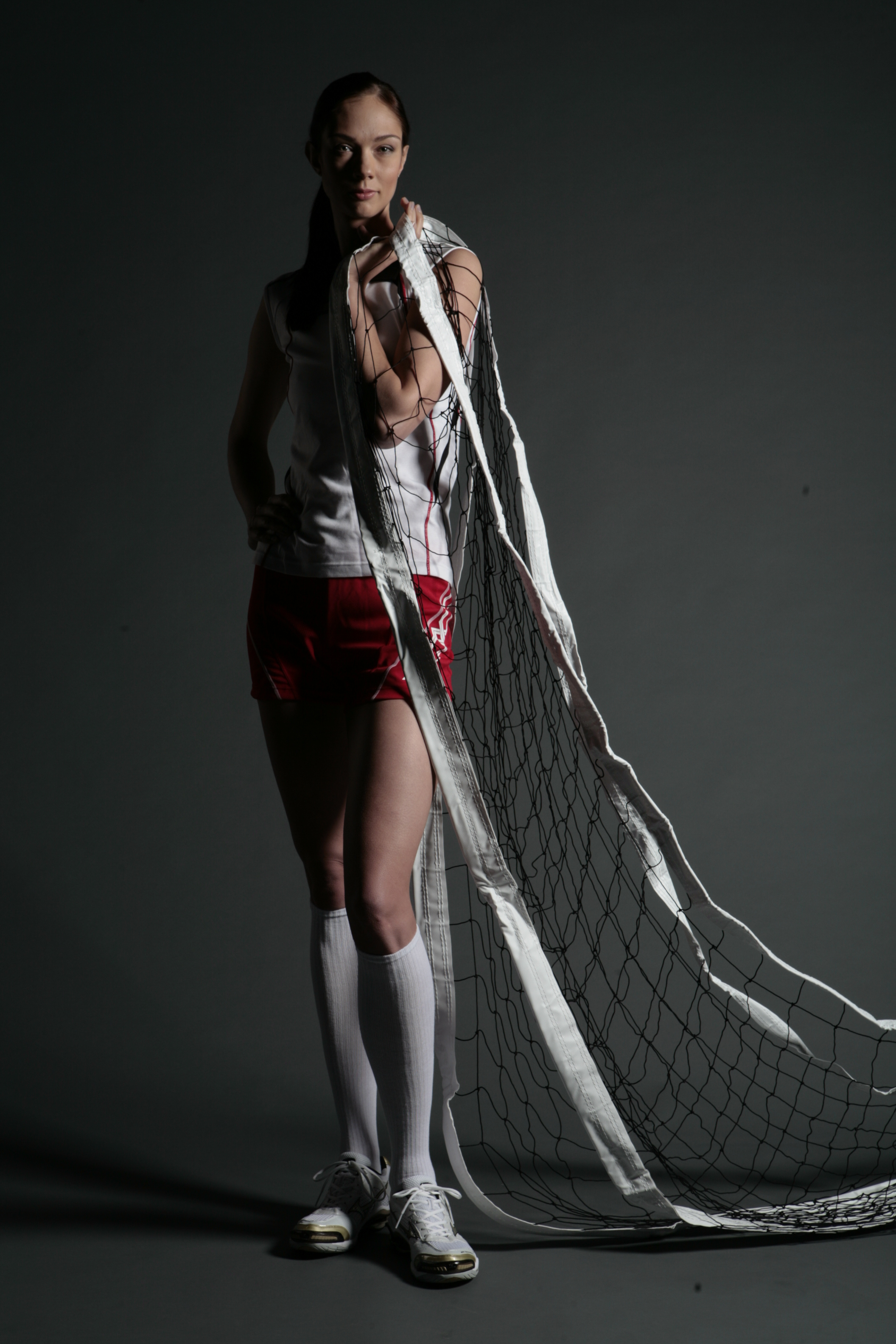 Yekaterina Gamova